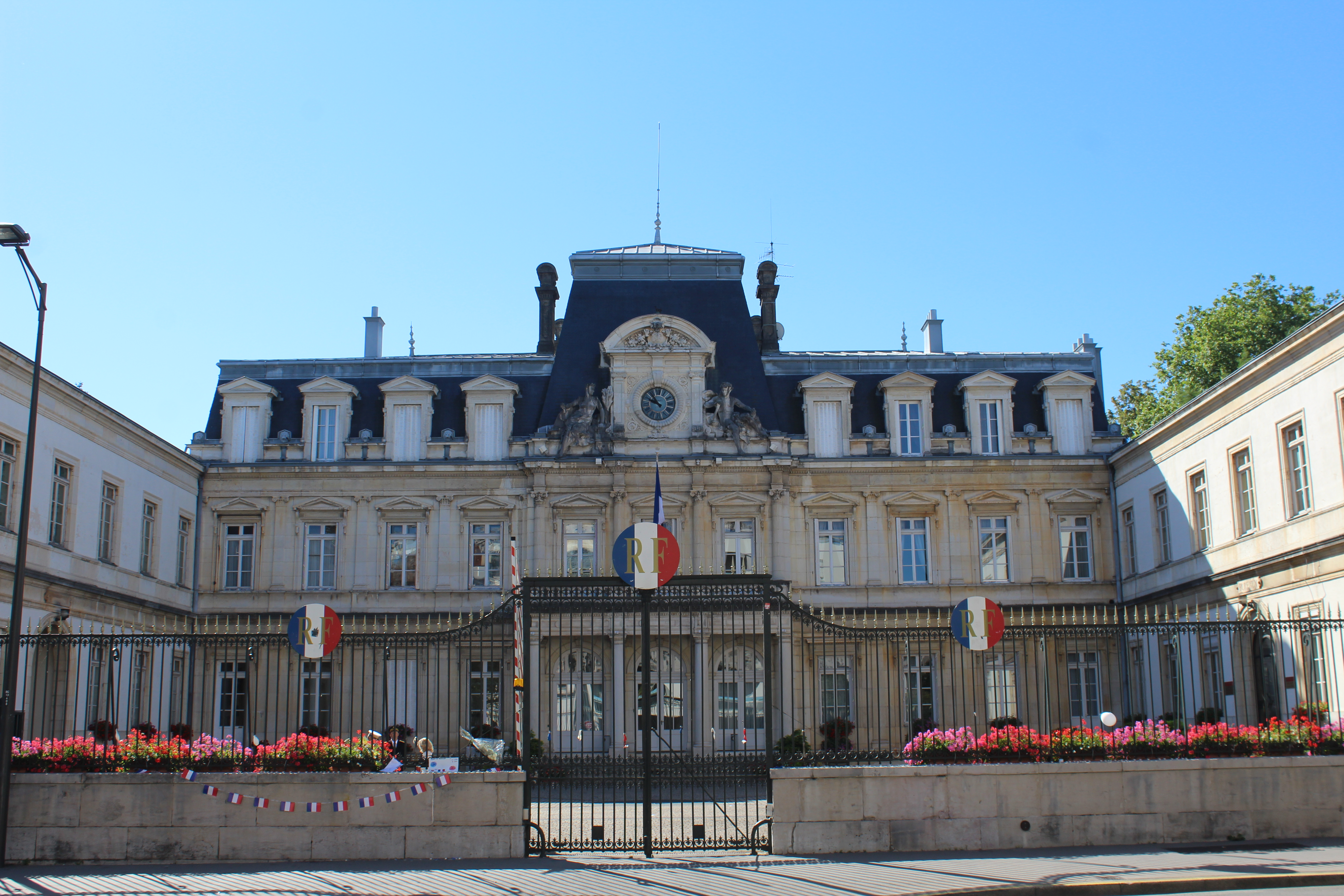 Prefecture of Ain along the Alsace-Lorraine Avenue in Bourg-en-Bresse.